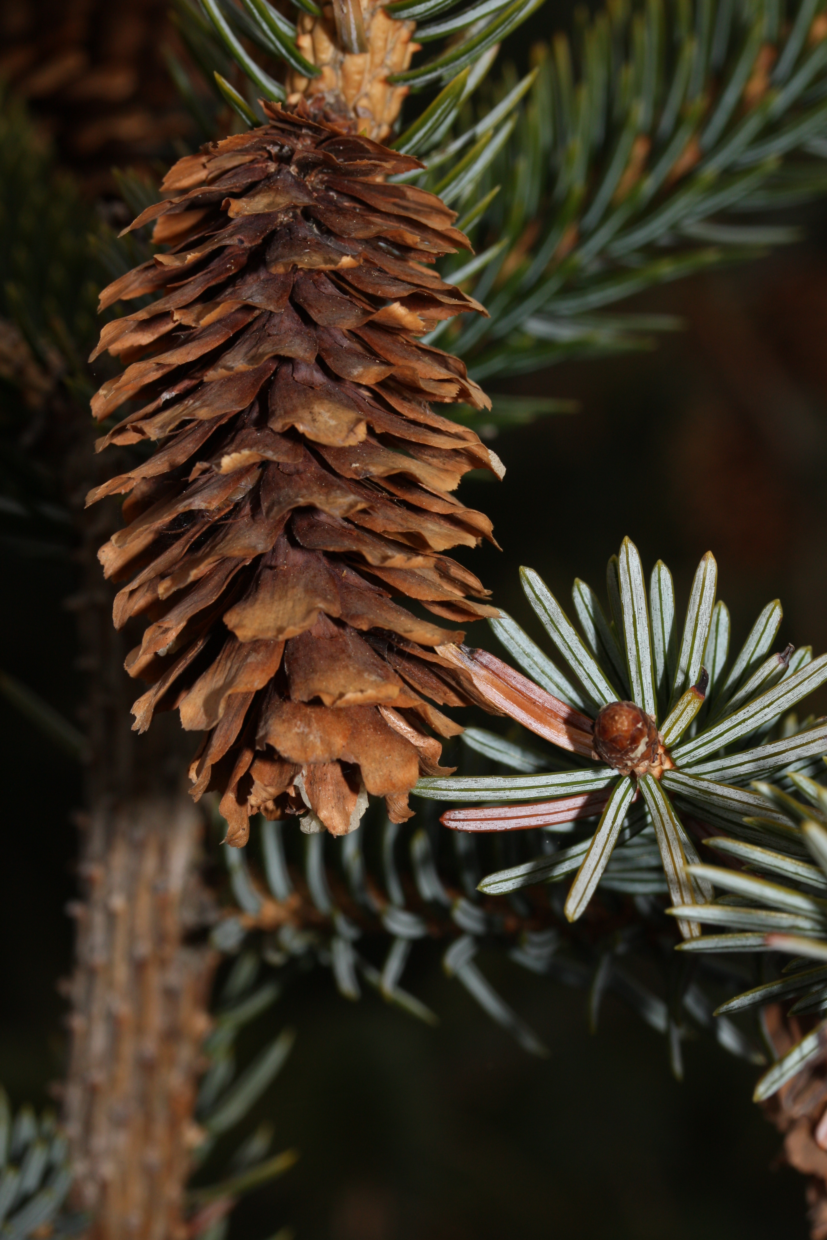 Sitka Spruce